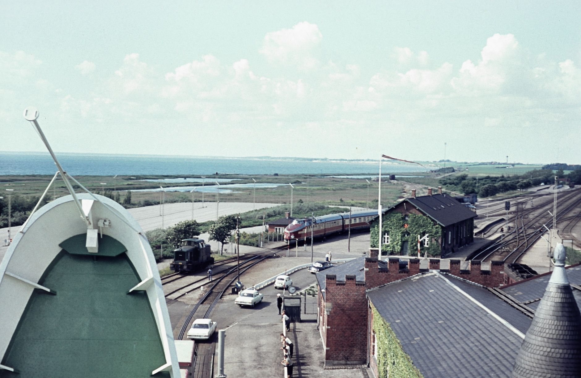 On a bright summer day in 1963 or 1964 the East-German passenger ferry Warnemünde had reached its destination port Gedser. Together with Danish and West-German road cars the express train Neptun Berlin-Kopenhagen leaves the ferry through its front cargo hatch.